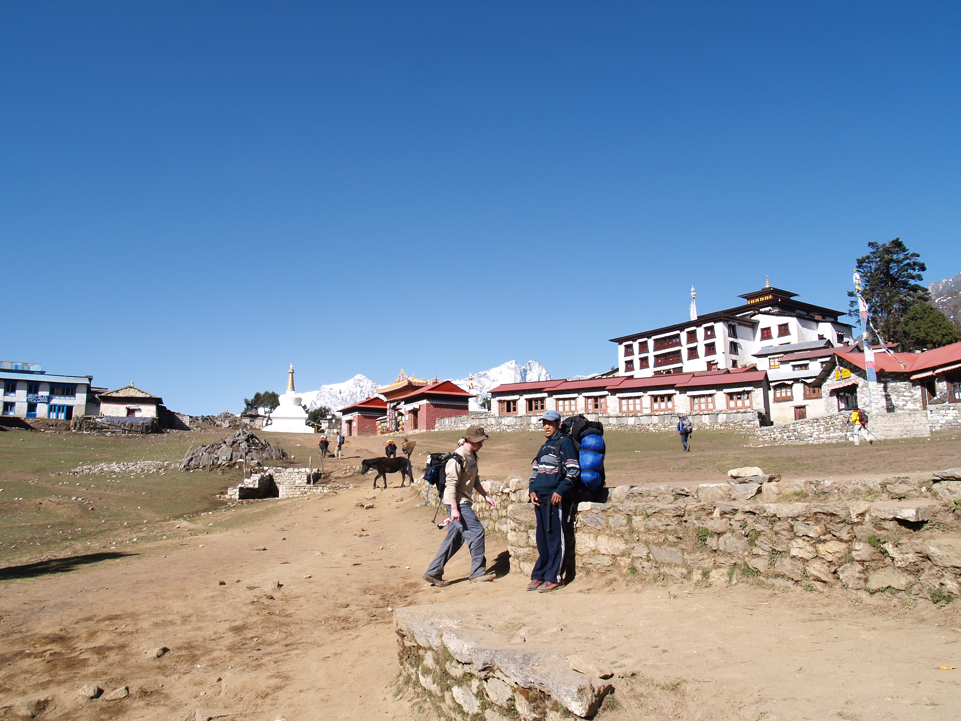 Tengboche, Nepal